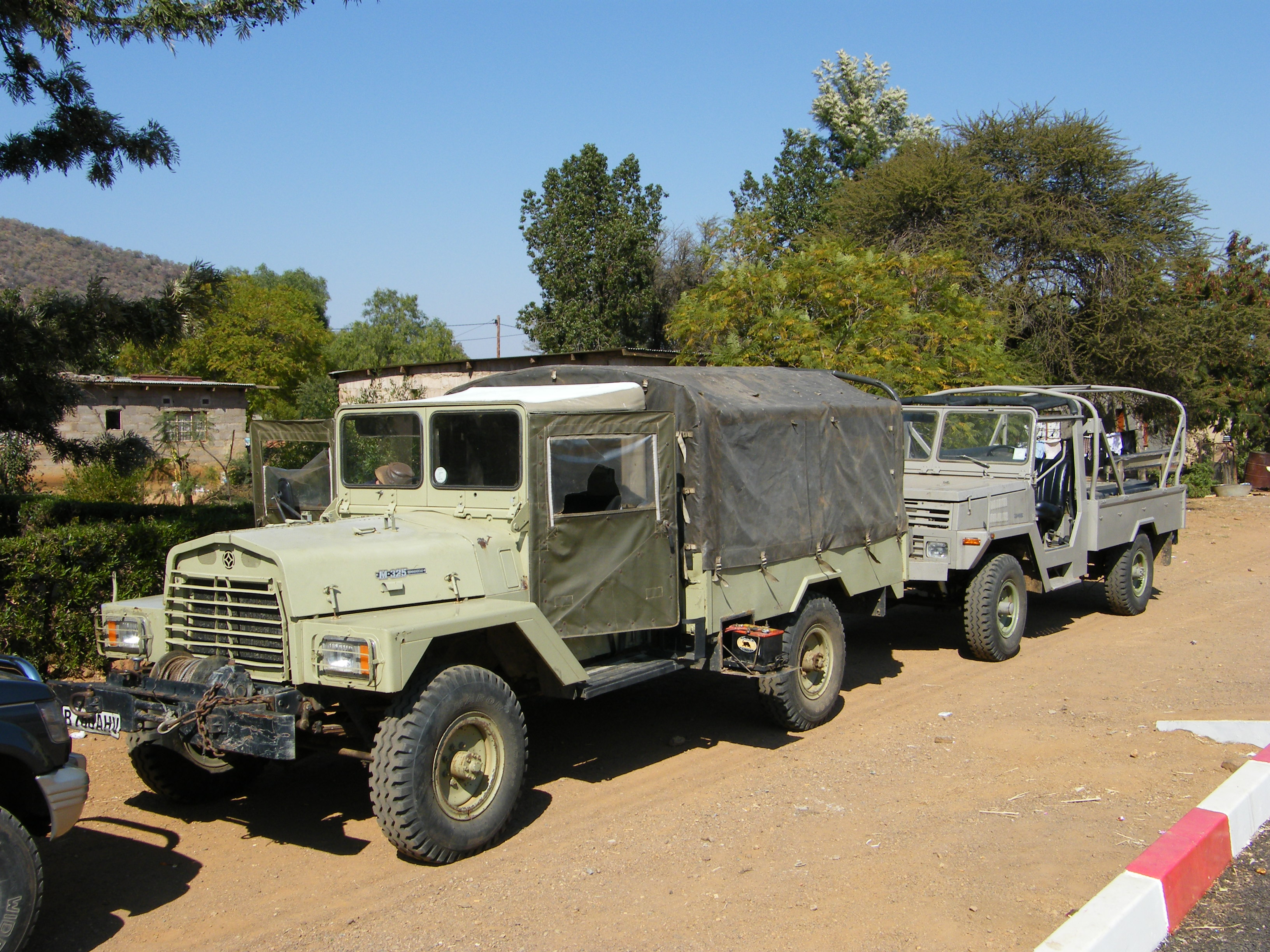 Ex-Botswana Defence Force vehicles, AIL M325 Command Car (front) and M462 ABIR (rear), Botswana 2008